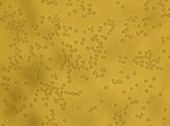 This is how the J558L (mouse B myeloma) cell line looks like under the light microscope. They are used in antibody cloning and production.